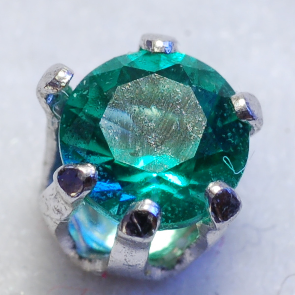 Photograph of an Emerald Obsidianiteen gemstone in an earring.